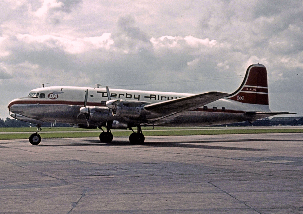 Canadair C-4 Argonaut G-ALHS of Derby Aviation at Manchester (Ringway) Airport in 1962